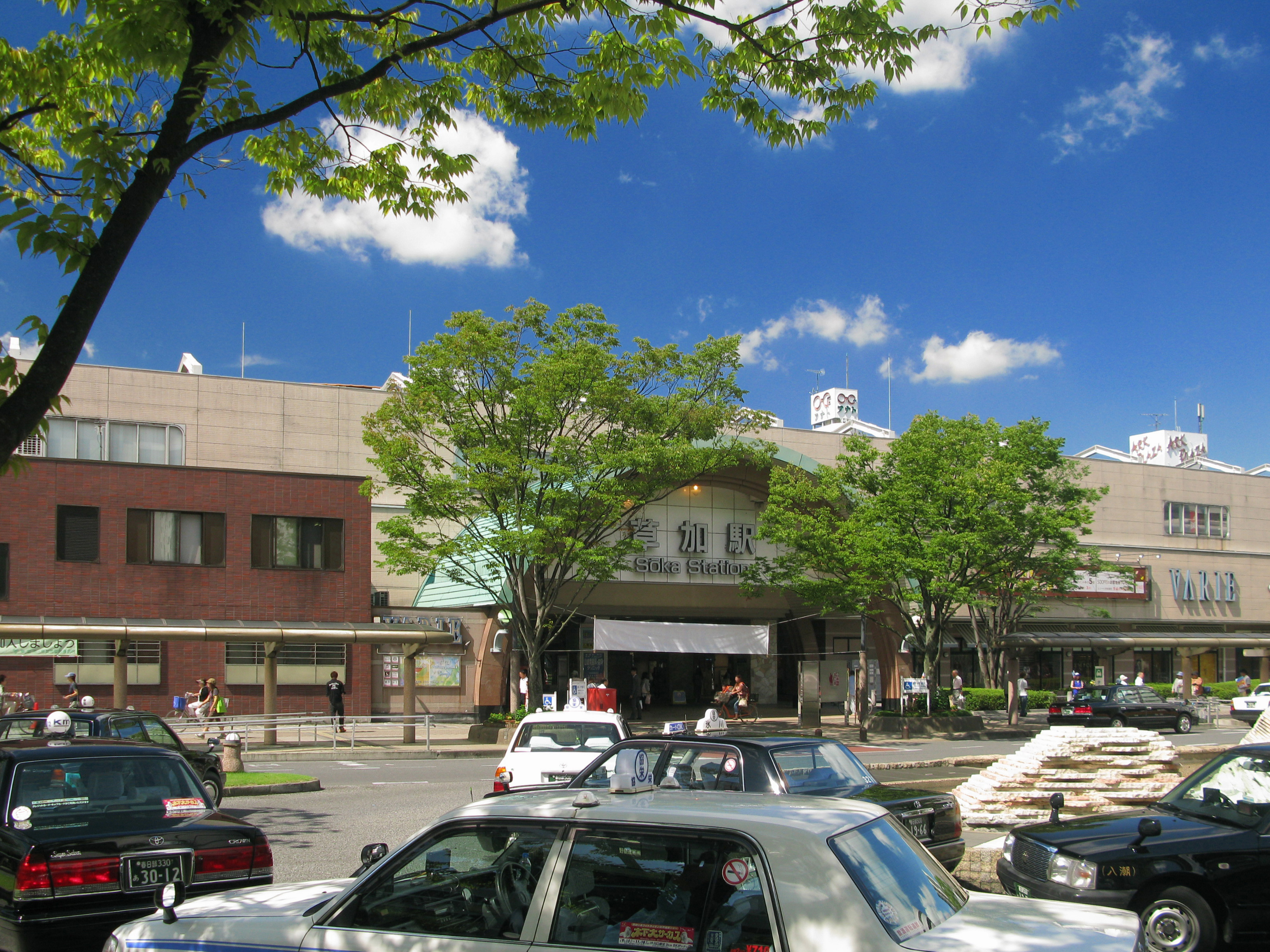 The east side of Soka Station in Saitama Prefecture, Japan